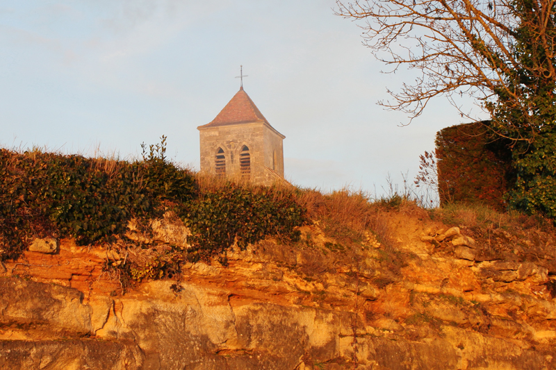 Church of Asques